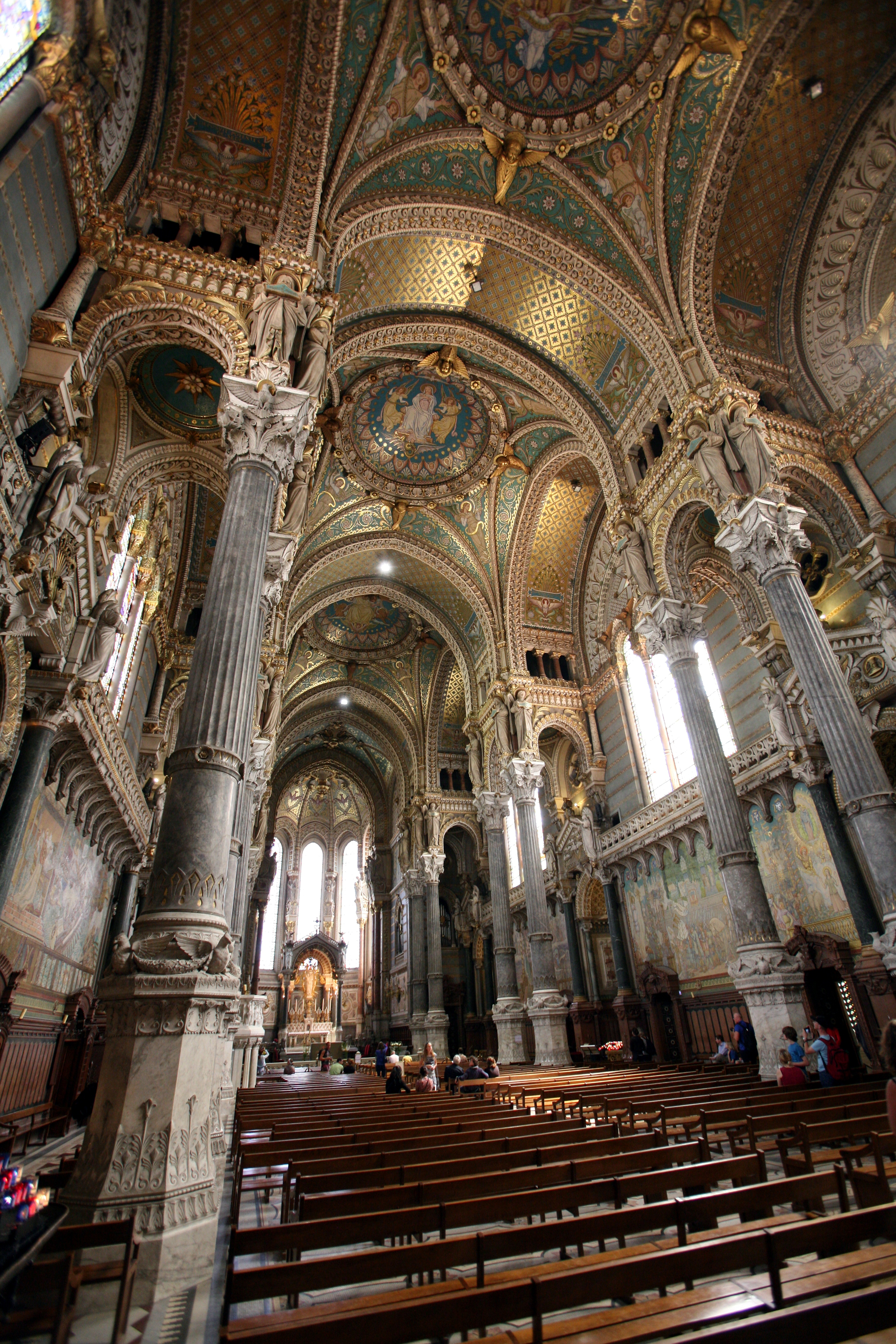 Interior of the Basilique Notre Dame de Fourvières, Lyon, France.